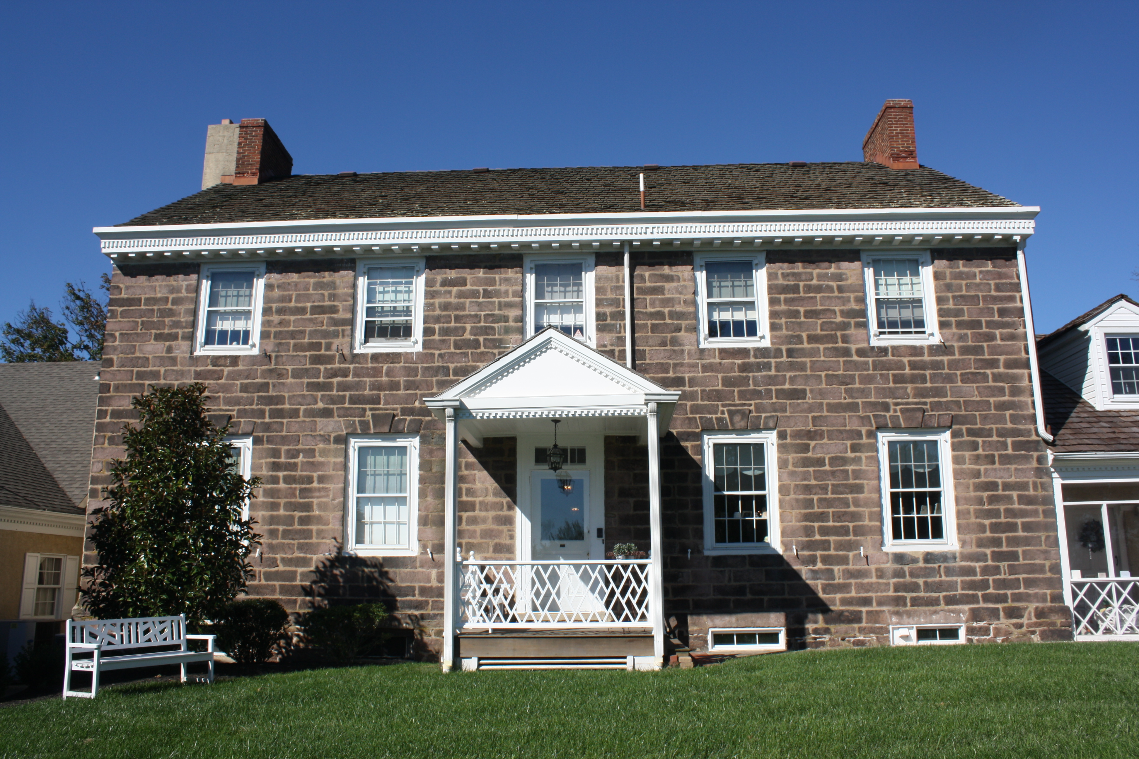 Twin Trees Farm is a historic home located at 905 2nd St. Pike Richboro, Northampton Township, Bucks County, Pennsylvania). Object location40° 12′ 41″ N, 75° 00′ 39″ W